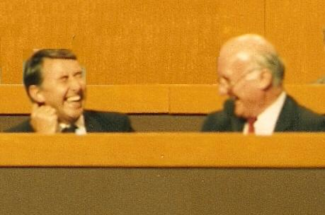 Russell Johnston at the Liberal Party Assembly in Harrogate, 1987